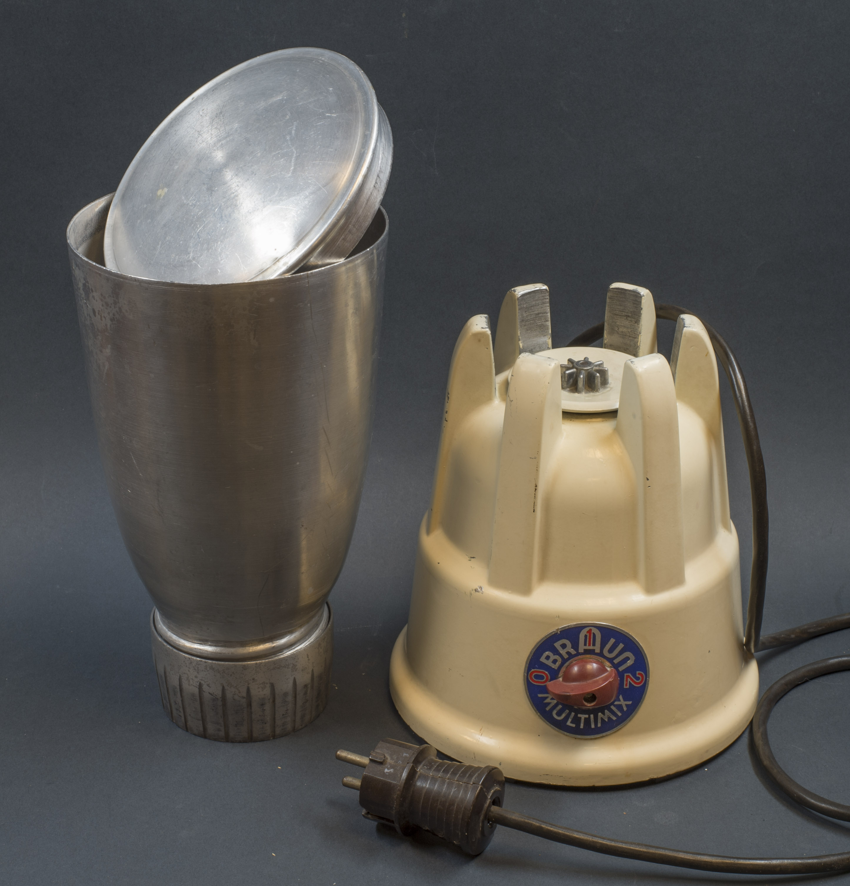 Mixer - Multimix manufactured by BRAUN in the 1950/60th